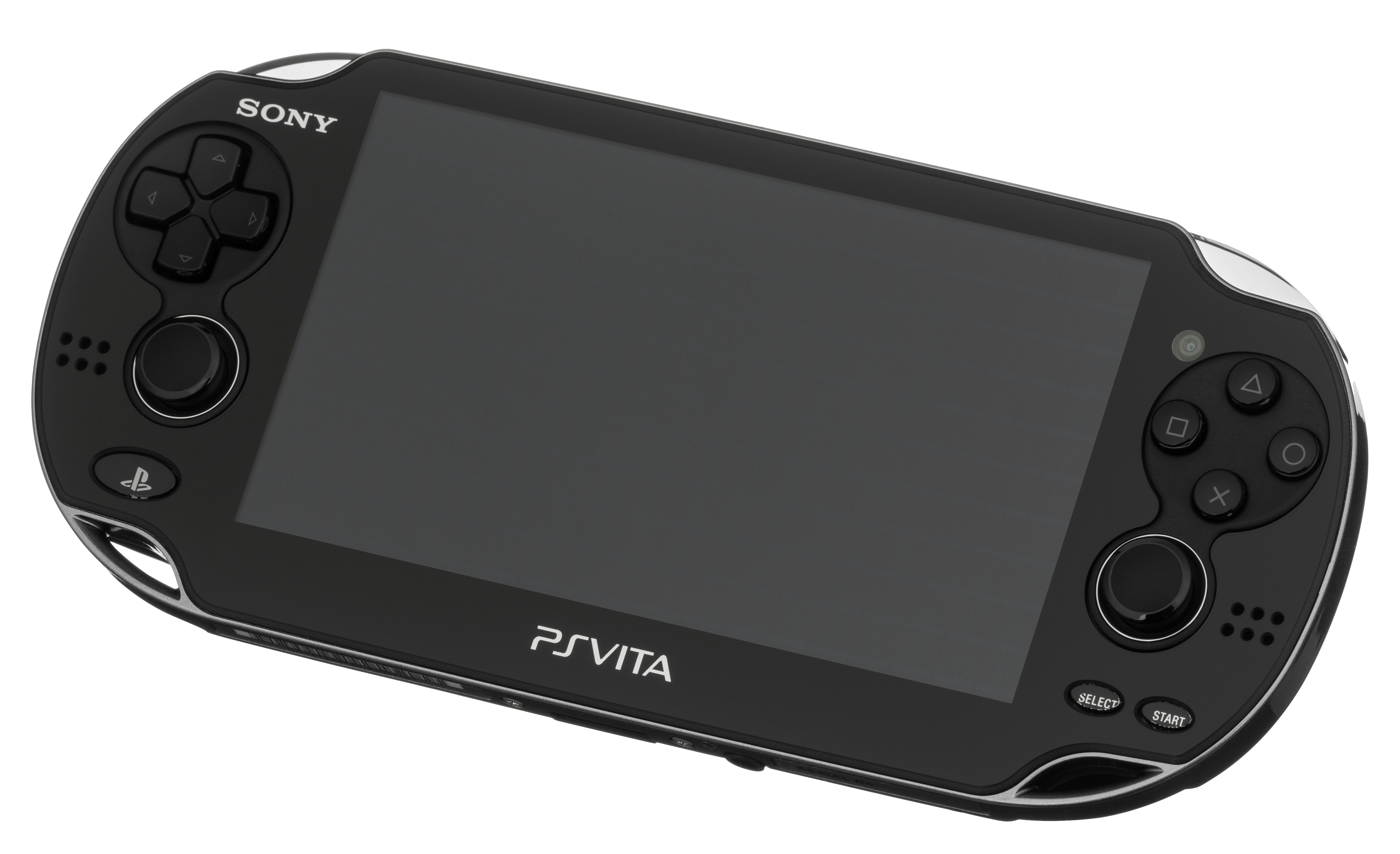 The PlayStation Vita, a handheld gaming console by Sony released in 2012. The successor to the PlayStation Portable (PSP), the Vita has numerous improvements over the previous system. It has rear and front touchscreens, dual analog sticks and a uigure resolution OLED screen. This model, the PCH-1101 also has built-in 3G wireless service support, but also comes in a Wi-Fi (PCH-1001) model.